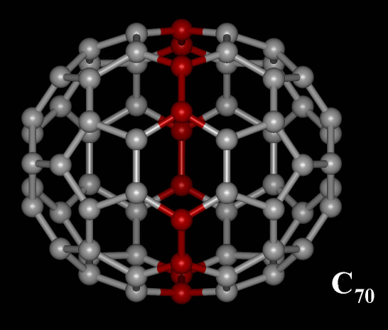 Fullerene C70